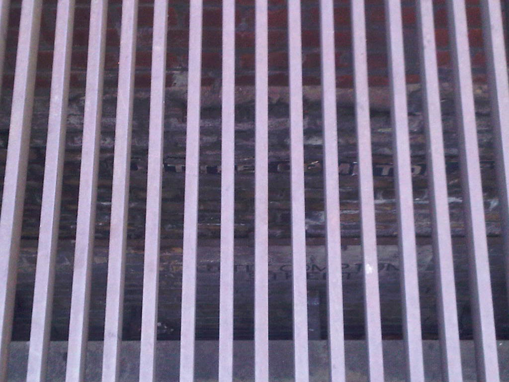 Little Compton Street indication